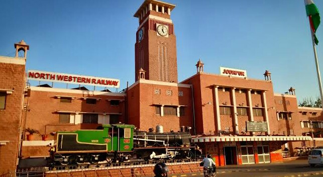 This is the Jodhpur Junction Railway station. This picture was captured by me.